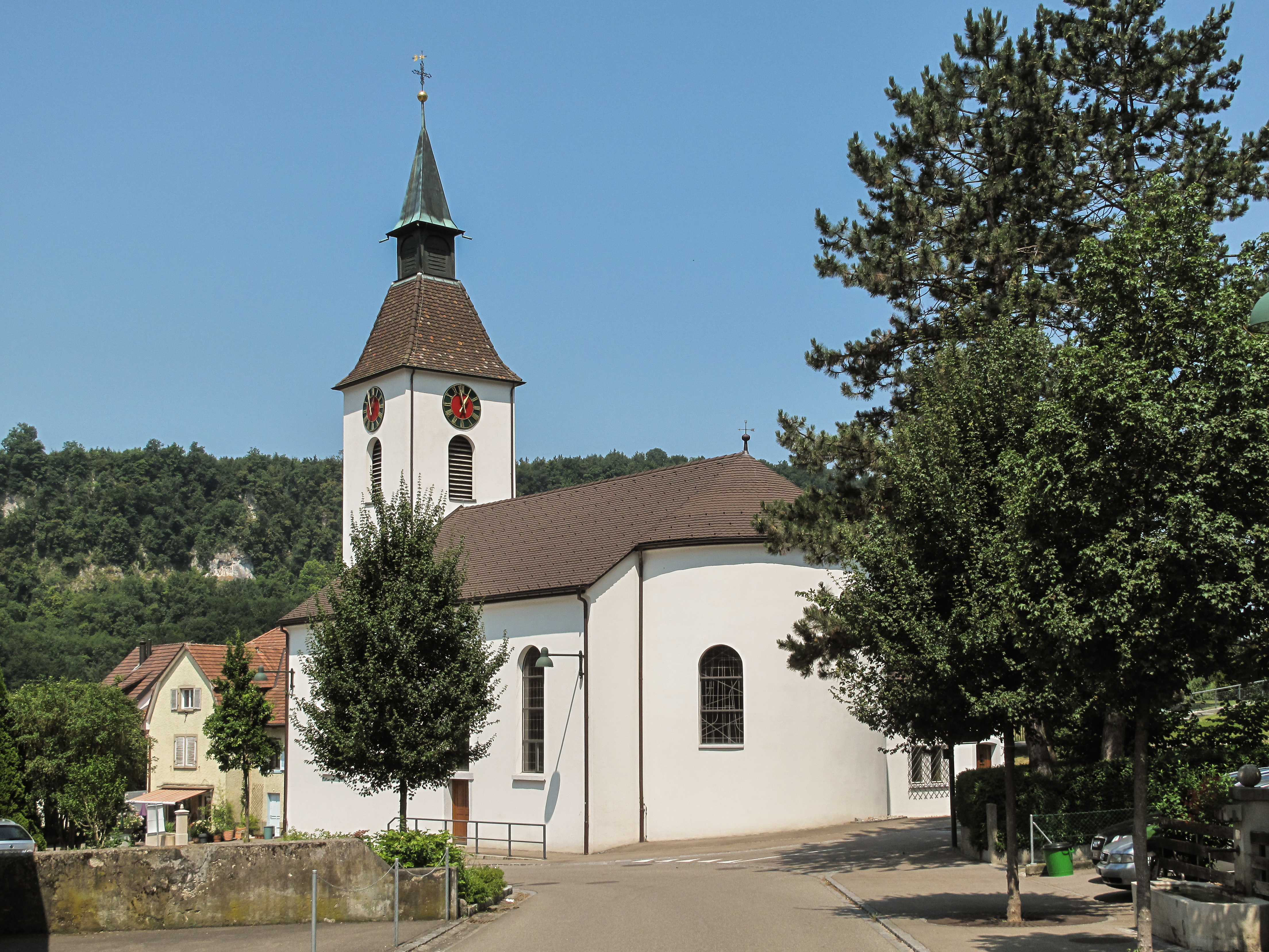 Duggingen, katholic church